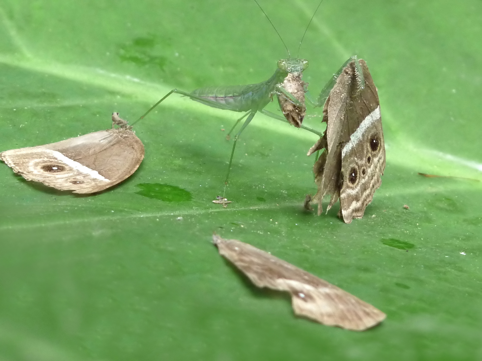 A mantis (Mantodea) eating a Common Bushbrown (Mycalesis perseus) butterfly. Taken in Kadavoor, Kerala, India.